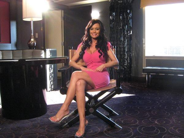 This is Crissy Moran on the set of the movie Oversold.